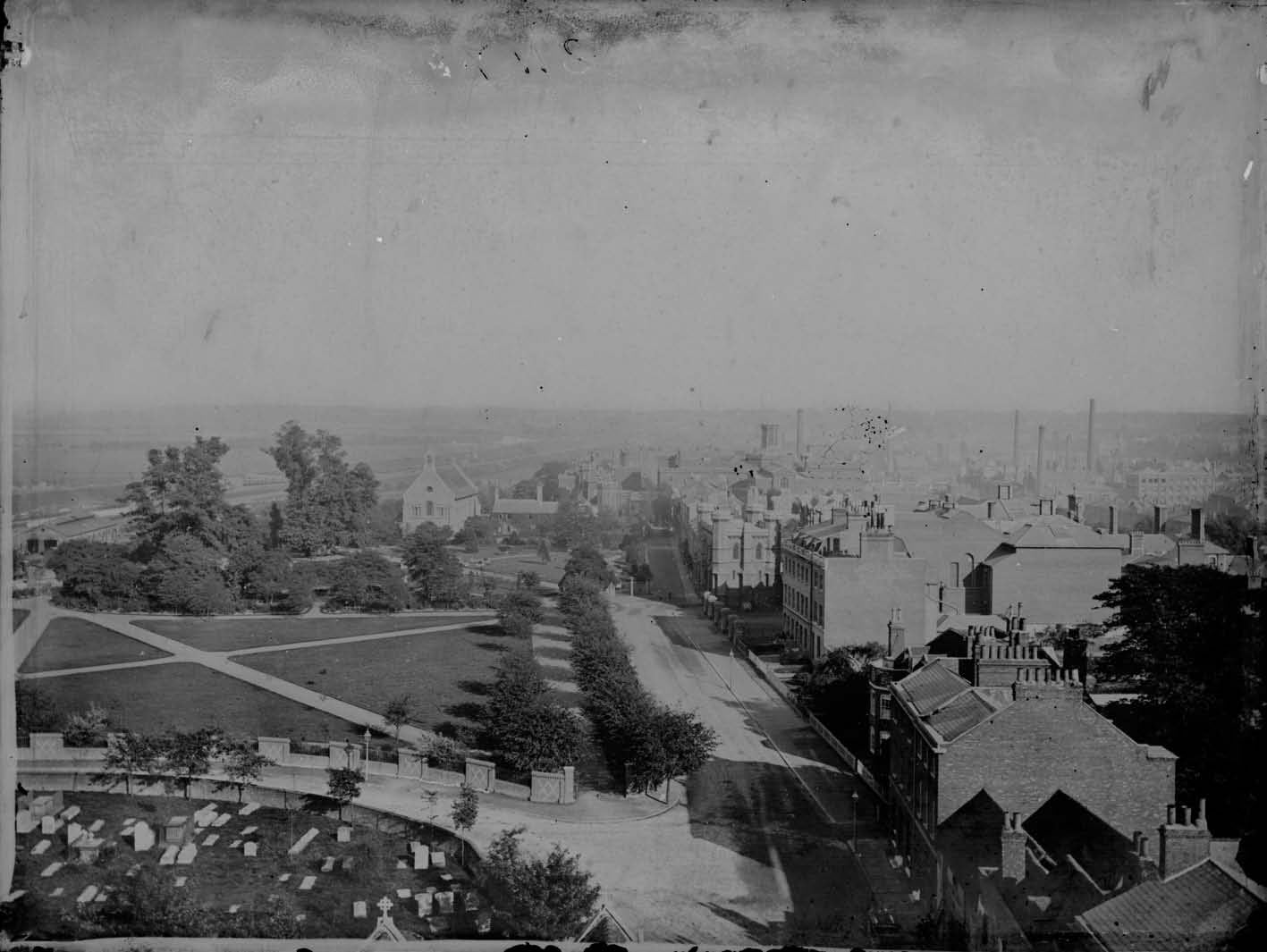 View from the tower of St. Laurence's Church, Reading, looking eastwards, along The Forbury and over Forbury Gardens, c. 1875. St. James's Roman Catholic Church, the top of the prison, and the chimneys of Huntley and Palmers biscuit factory appear in the distance. 1870-1879 ; glass negative, Box 22, No. 2478, by H. W. Taunt.